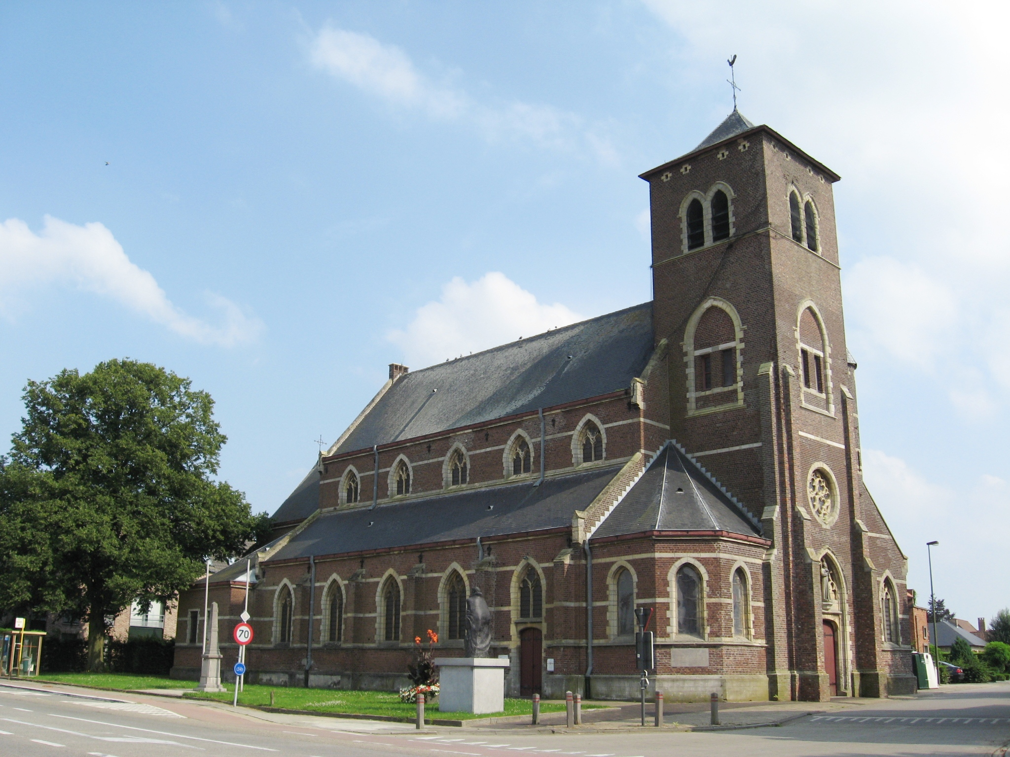 Church of the Holy Child Jesus in Kaggevinne, Diest, Flemish Brabant, Belgium